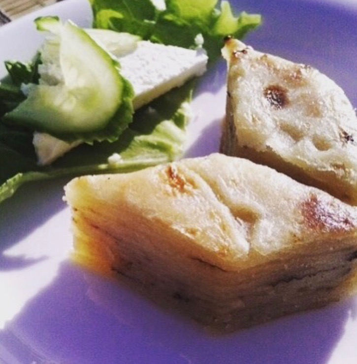 Traditional pie in Ohrid, made from flour, water and salt and baked under the baking lid.